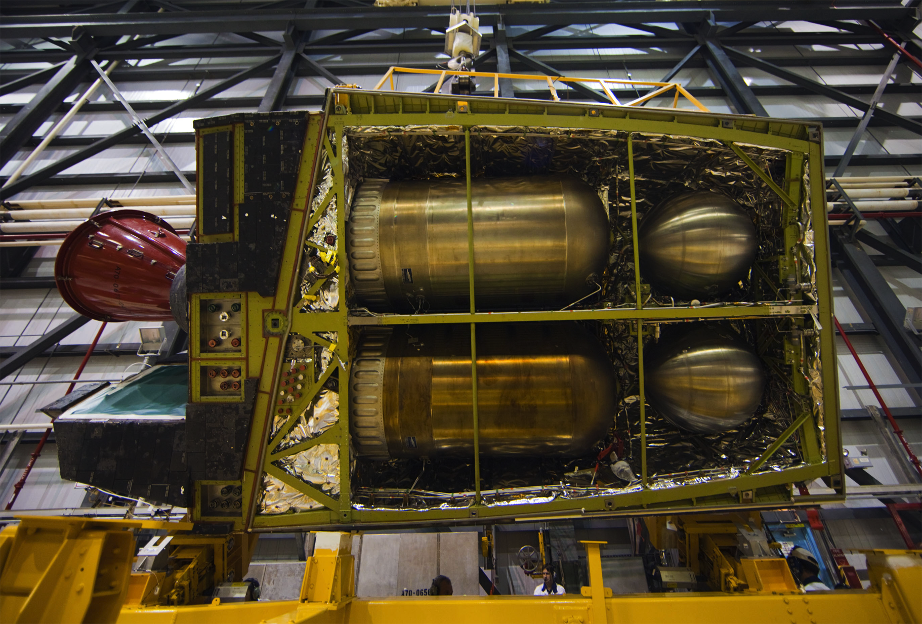 In Orbiter Processing Facility-1 at NASA’s Kennedy Space Center in Florida, a rare underside view of shuttle Endeavour’s left-hand orbiter maneuvering system, or OMS, pod can be seen as an overhead crane lowers the component onto a transporter. It will then be moved to the Hypergol Maintenance Facility. The work is part of Endeavour’s transition and retirement processing. The spacecraft is being prepared for public display at the California Science Center in Los Angeles. Endeavour flew 25 missions, spent 299 days in space, orbited Earth 4,671 times and traveled 122, 883, 151 miles over the course of its 19-year career. Endeavour’s STS-134 and final mission was completed after landing on June 1, 2011.